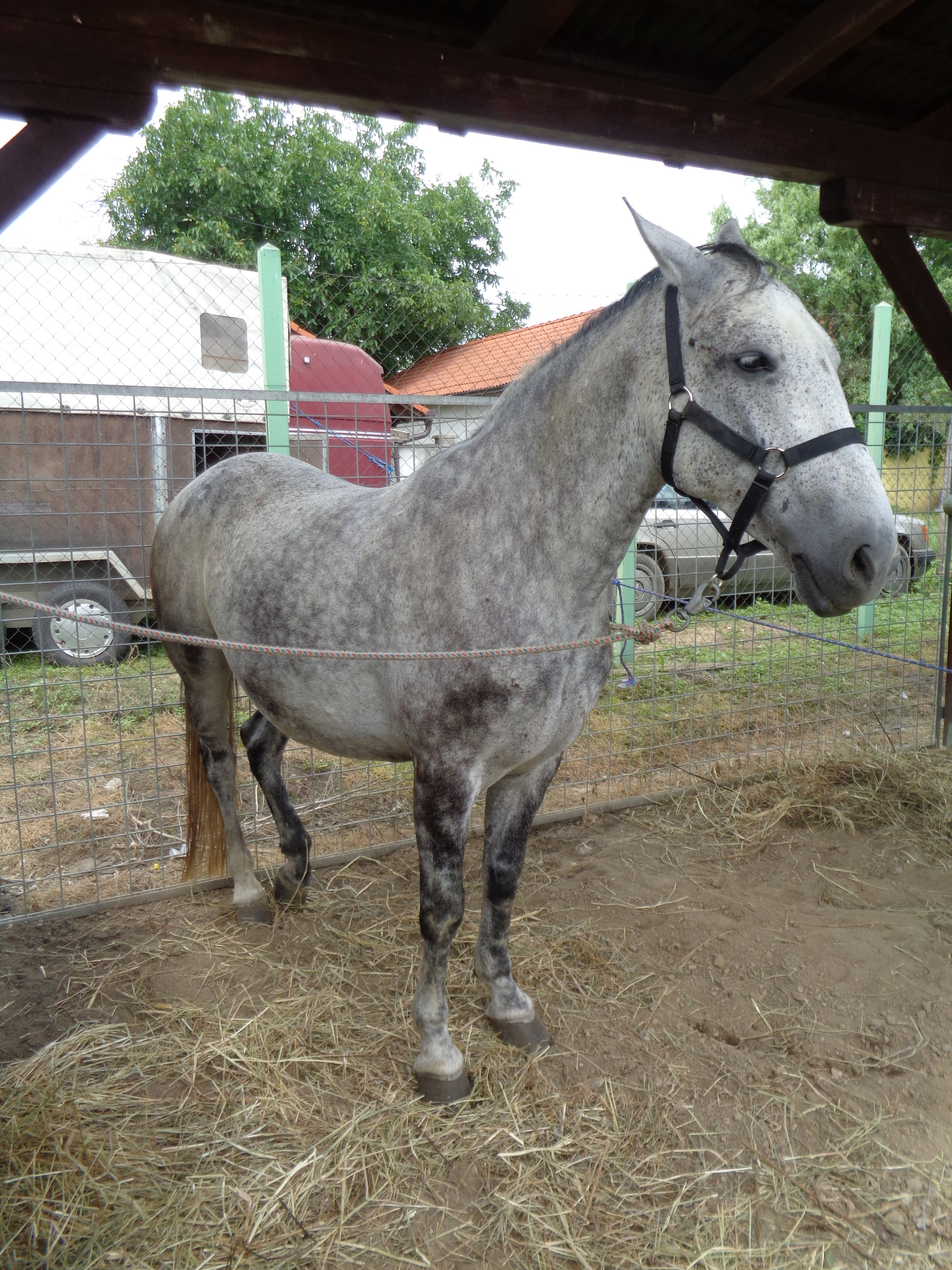 Young lipizzan horse at 2018 MESAP Trade Fair in Nedelišće, Medjimurje County, Croatia